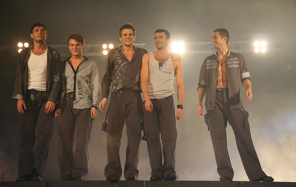 Boyband - musical in Komedia Theatre in Warsaw, 7 November 2008: Michał Kruk (Danny), Maciej Radel (Matt), Marcin Mroziński (Sean), Tomasz Bacajewski (Adam) and Jarosław Derybowski (Jay).